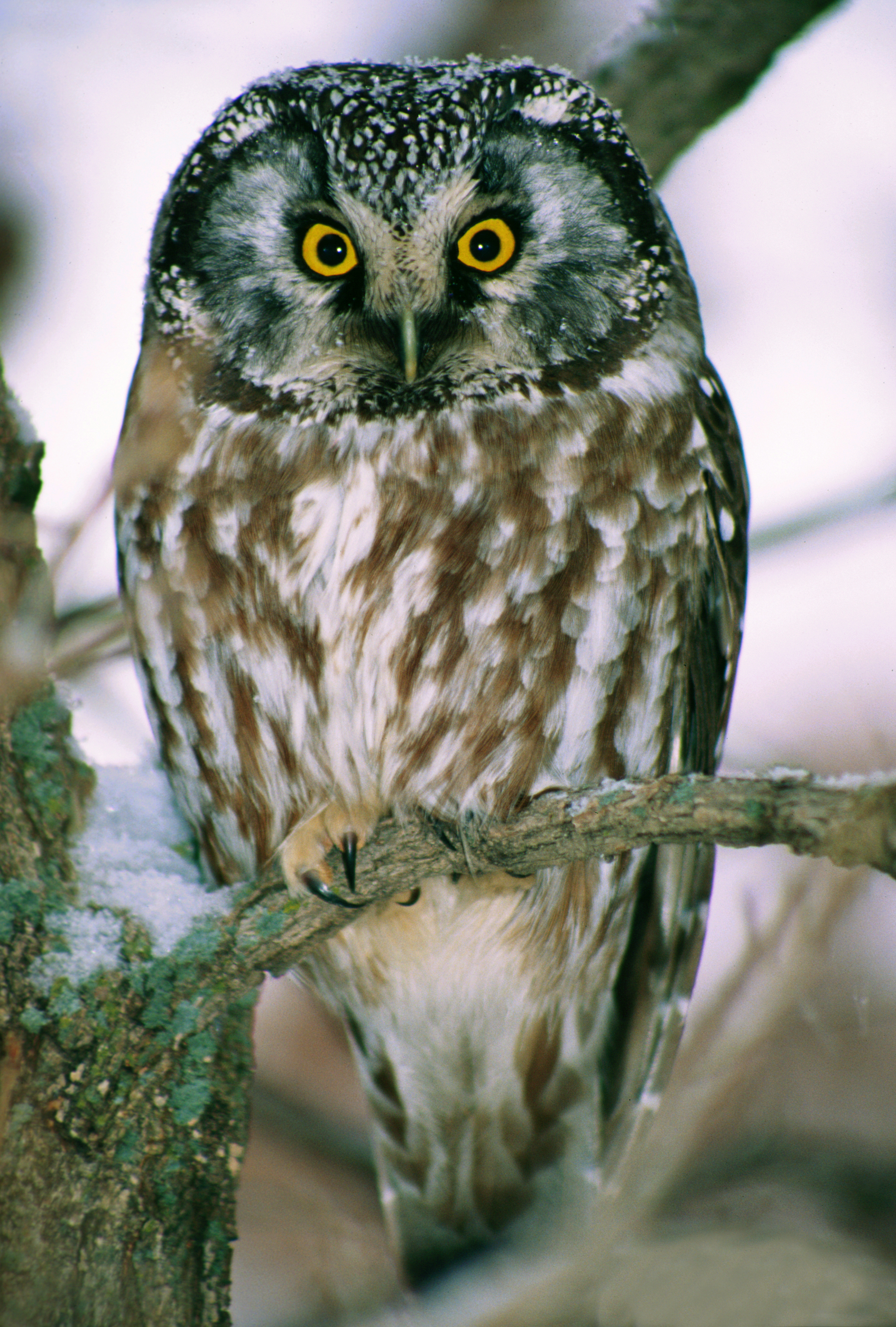 Adult Aegolius funereus, Anoka County, Minnesota, United States.